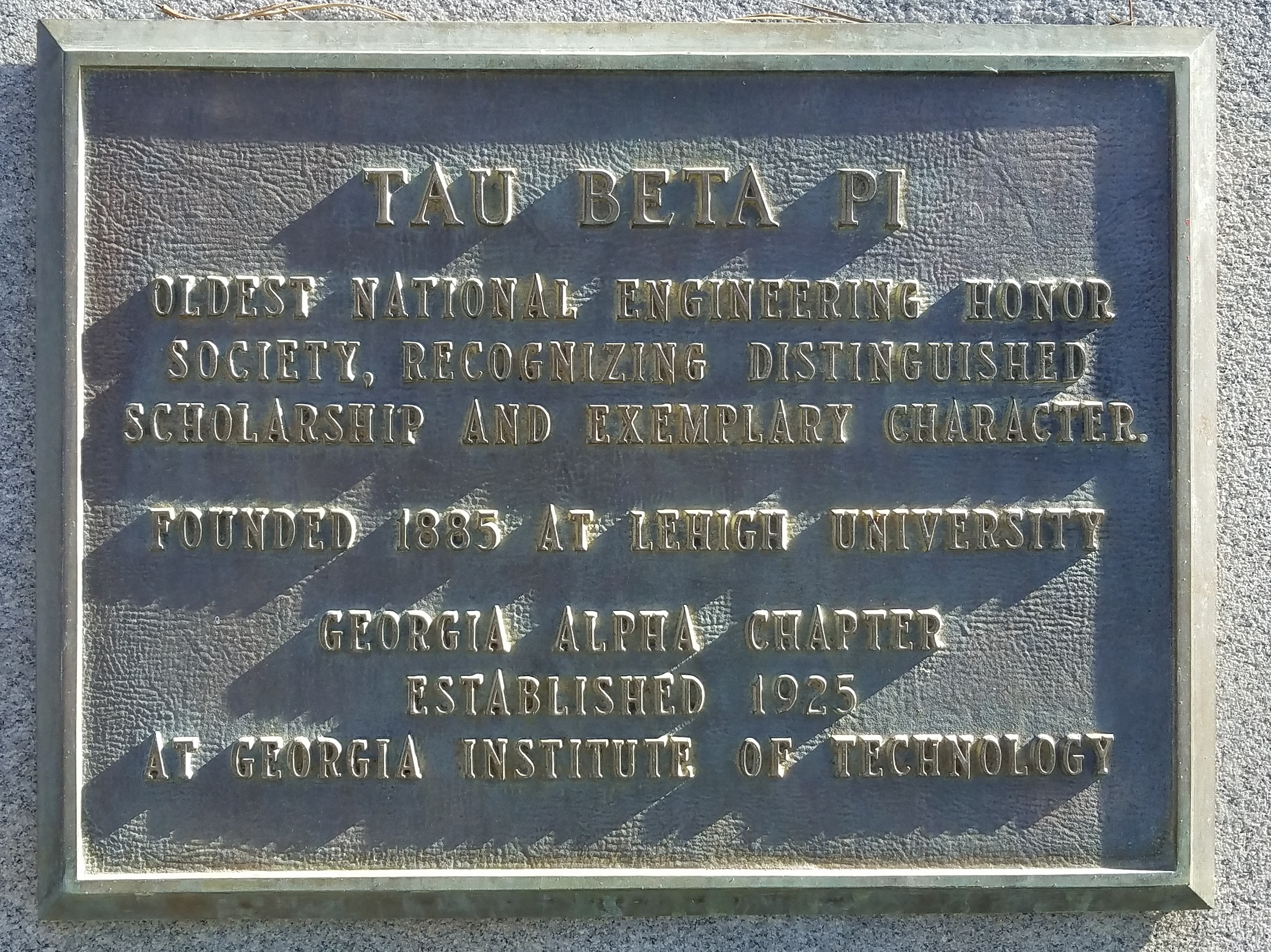 Tau Beta Pi plaque at the Georgia Institute of Technology.